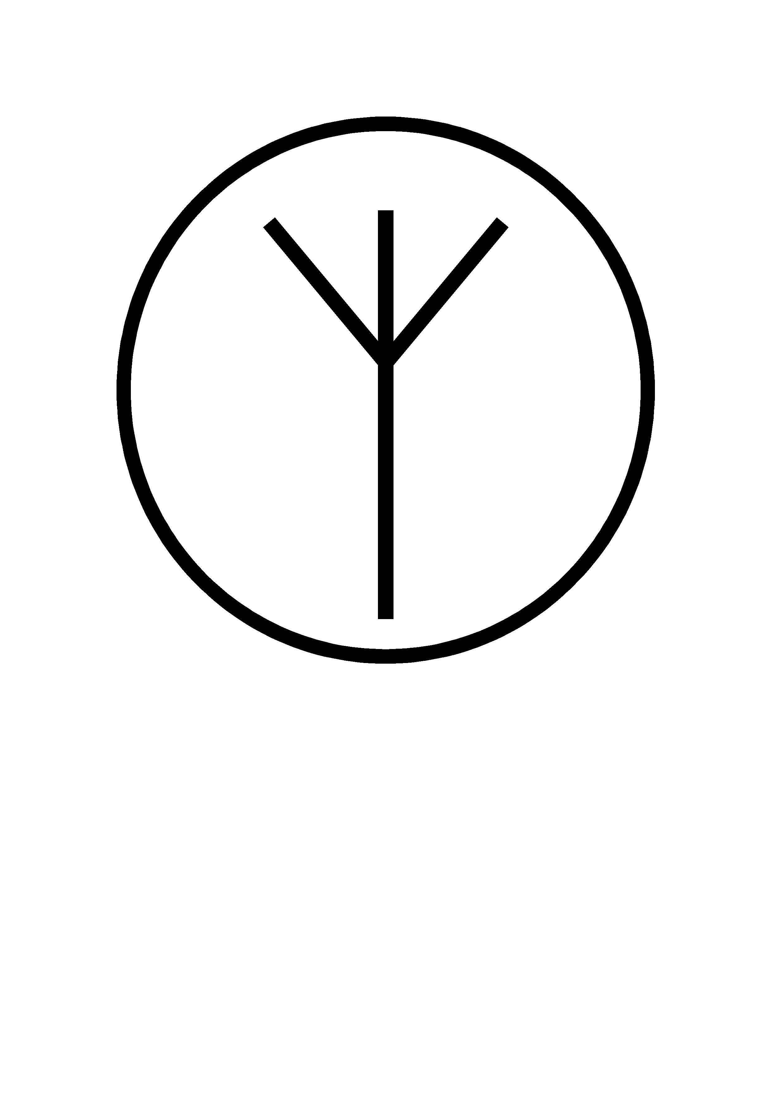 Tank marking of the 4th Panzer Division of the Wehrmacht (German Army), 1930s/1940s